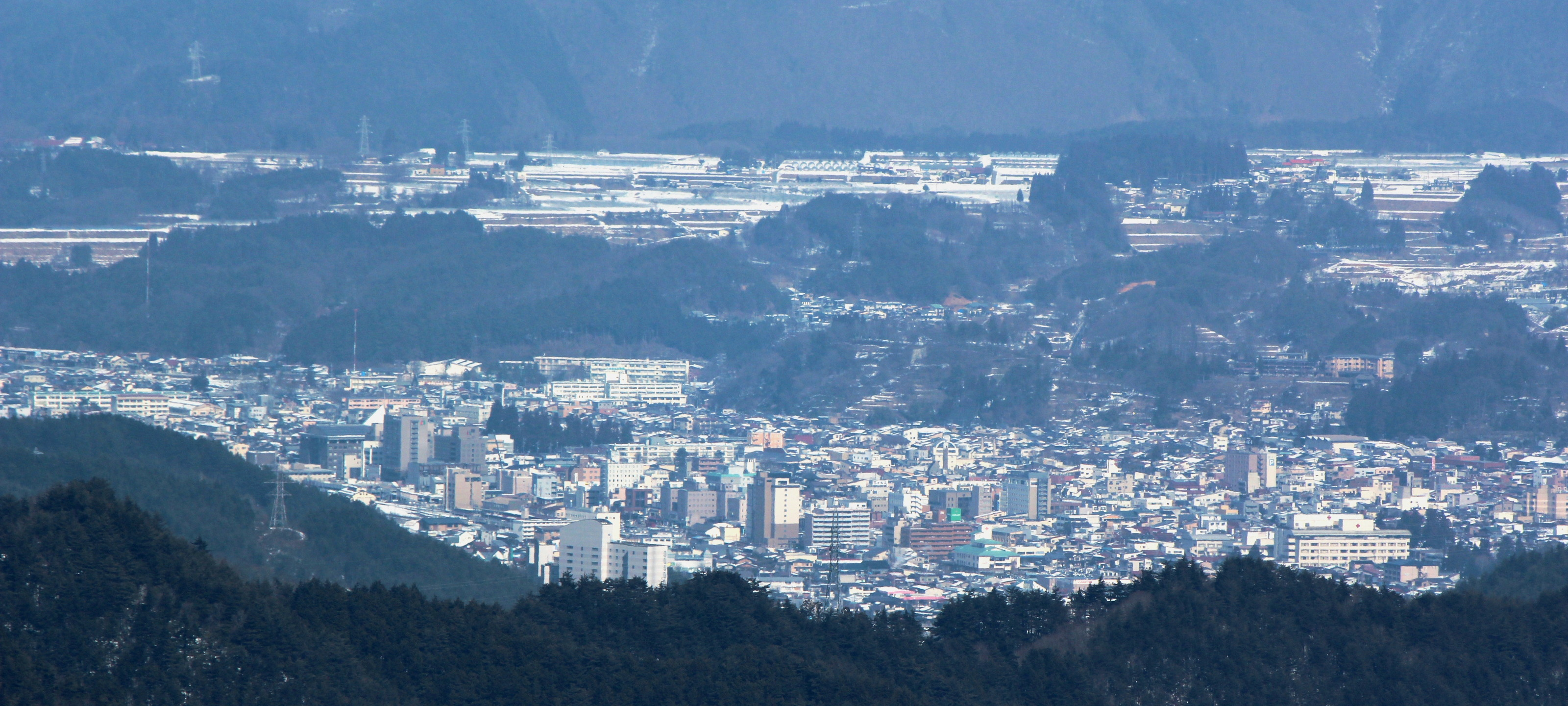 Takayama from Mount Kurai